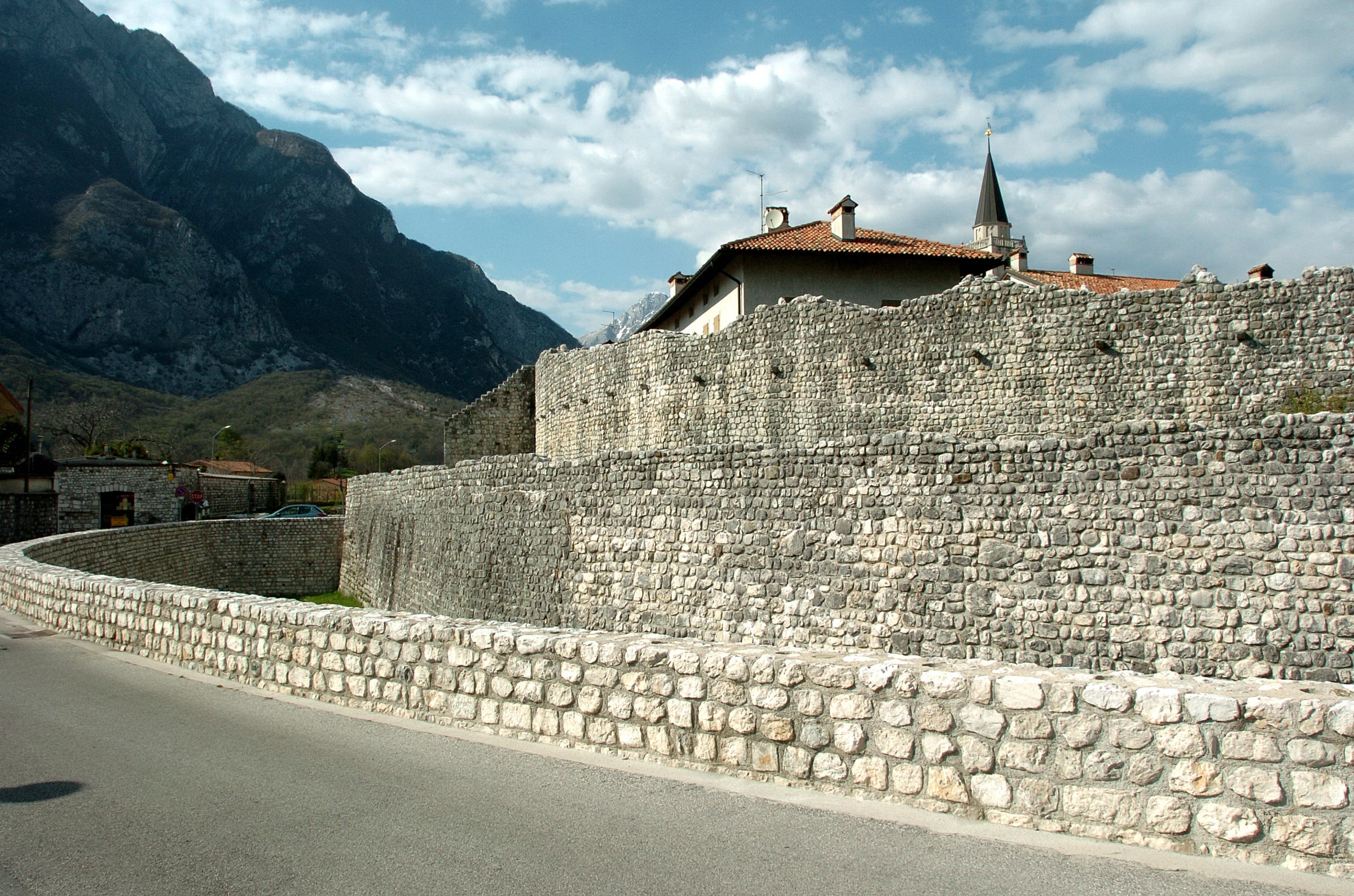 Curtain wall and moat, municipality Venzone, province of Udine, region Friuli-Venezia Giulia, Italy, EU}